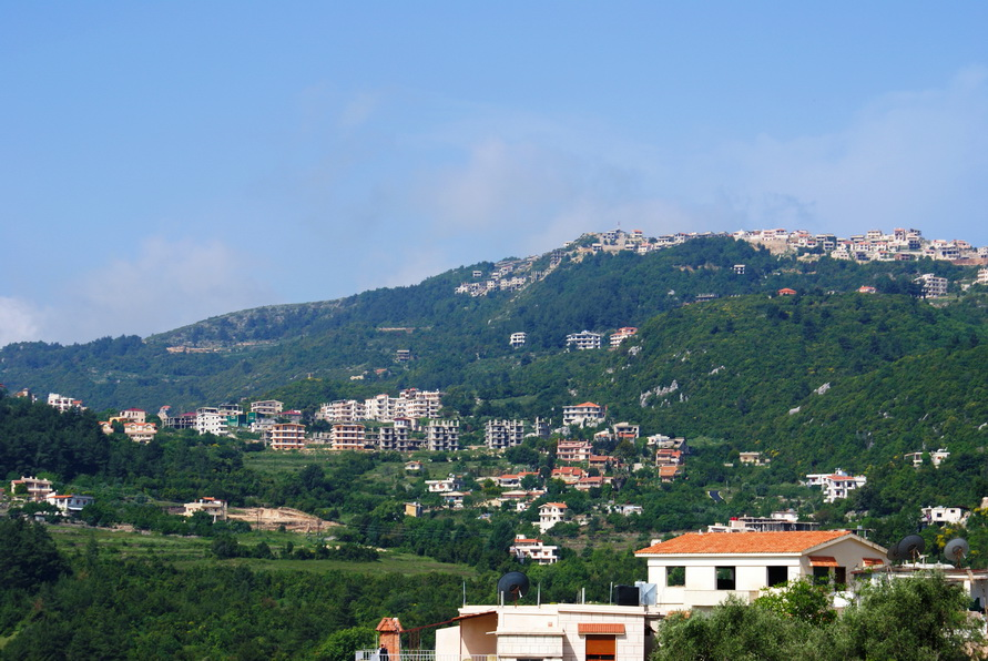 Kessab, with the village of Karadash on Mount Dapasa in the background, Syria.